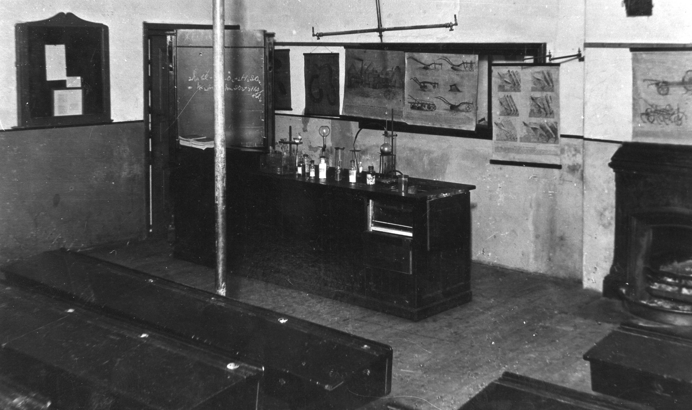 This is an old photo